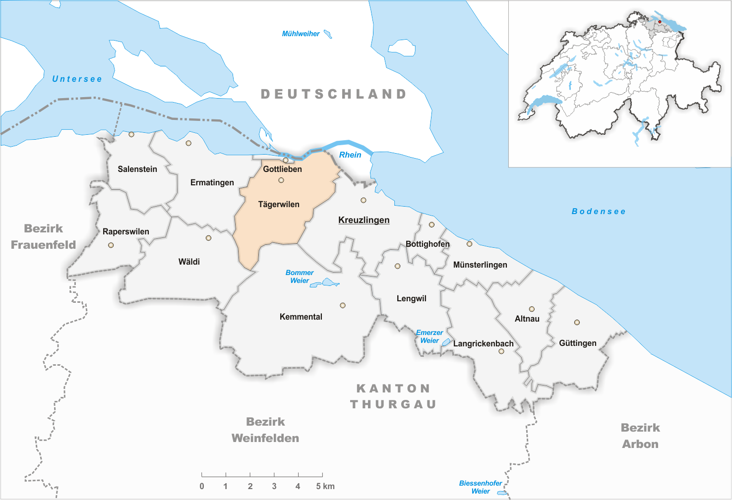 Municipality Tägerwilen